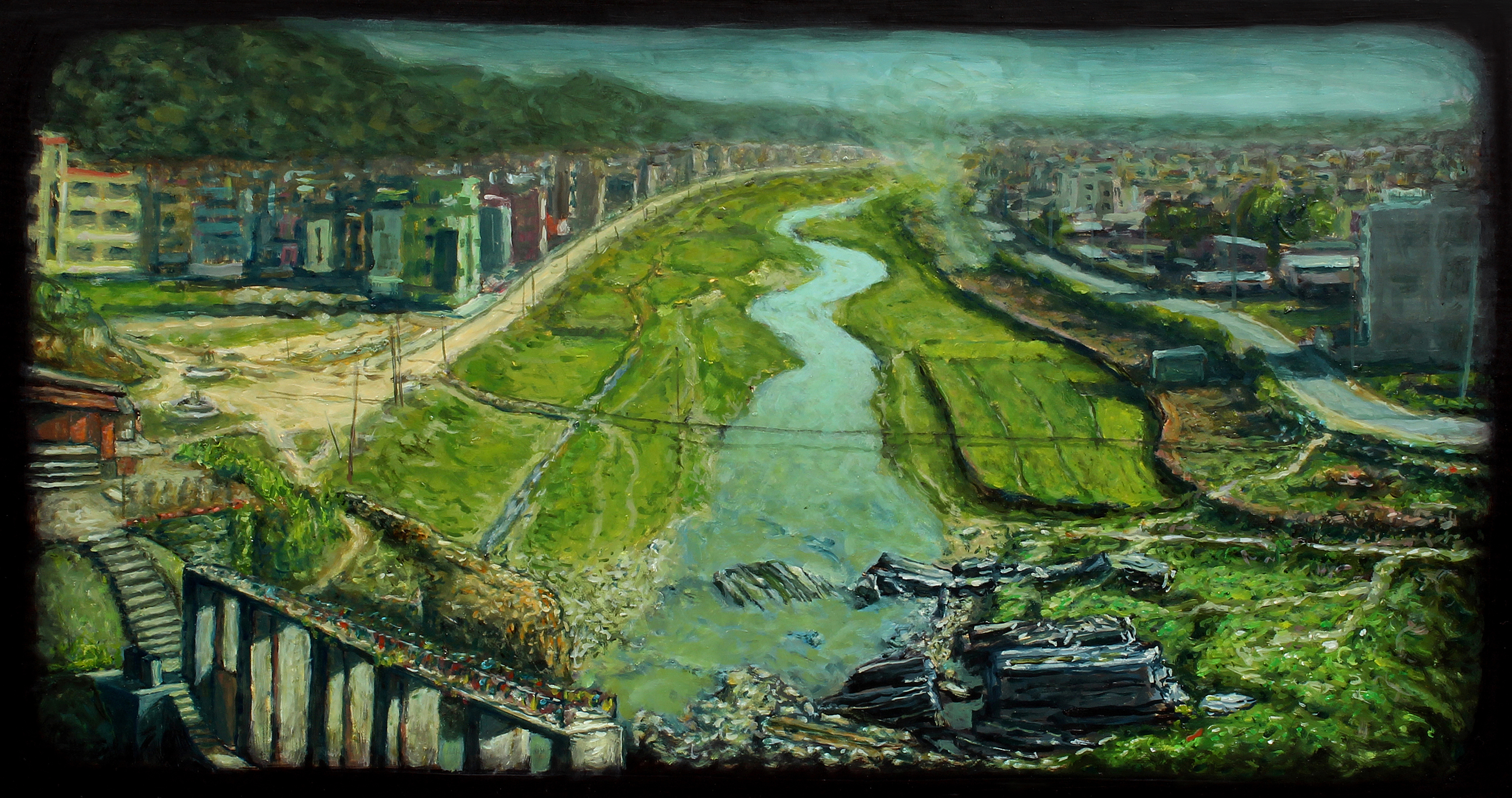 Alberto Rey, "Bagmati River flowing into Kathmandu, Nepal" oil on board, 2014. As part of Rey's "Bagmati River Project." Used with permission from the artist.